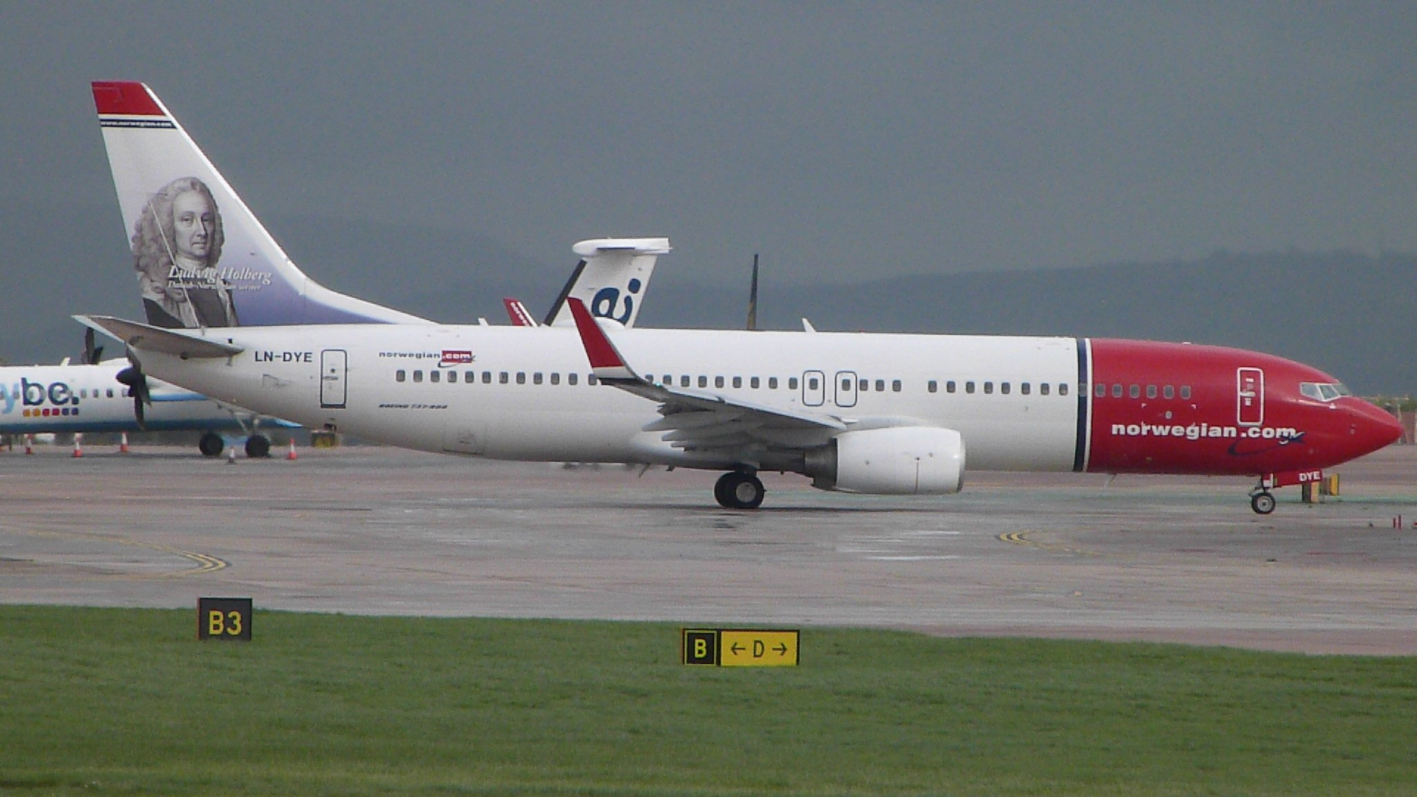 All photos taken during a visit to the viewing area at Manchester Airport. LN-DYE Norwegian Air Shuttle Boeing 737-8JP CN 39003